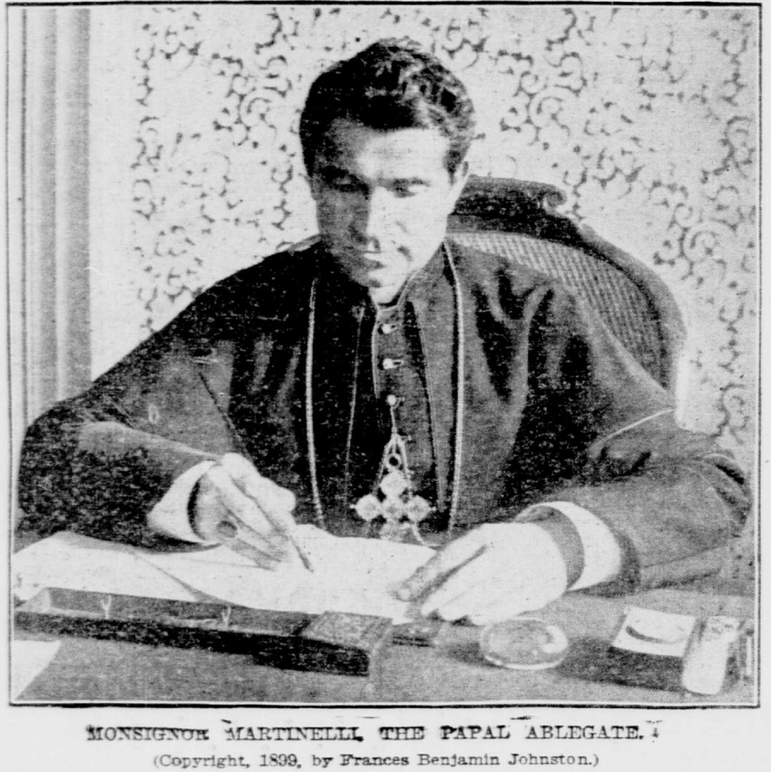 Monsignor Sebastiano Martinelli, the Papal Ablegate to the US in 1899.